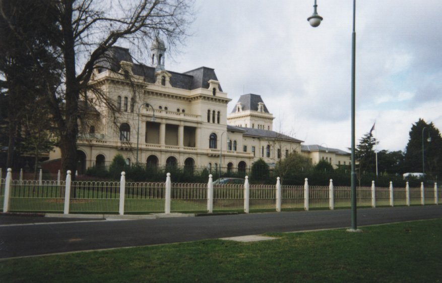 Kew Asylum aka Willsmere prior to redevelopment